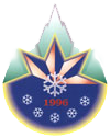 Coat of arms of the former Šipkovica Municipality, Macedonia.